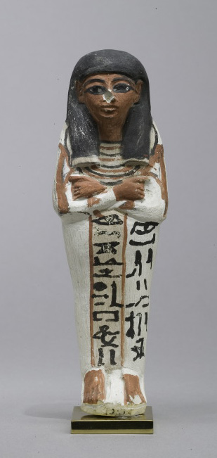 Shabti, Khabekhnet, Iineferty